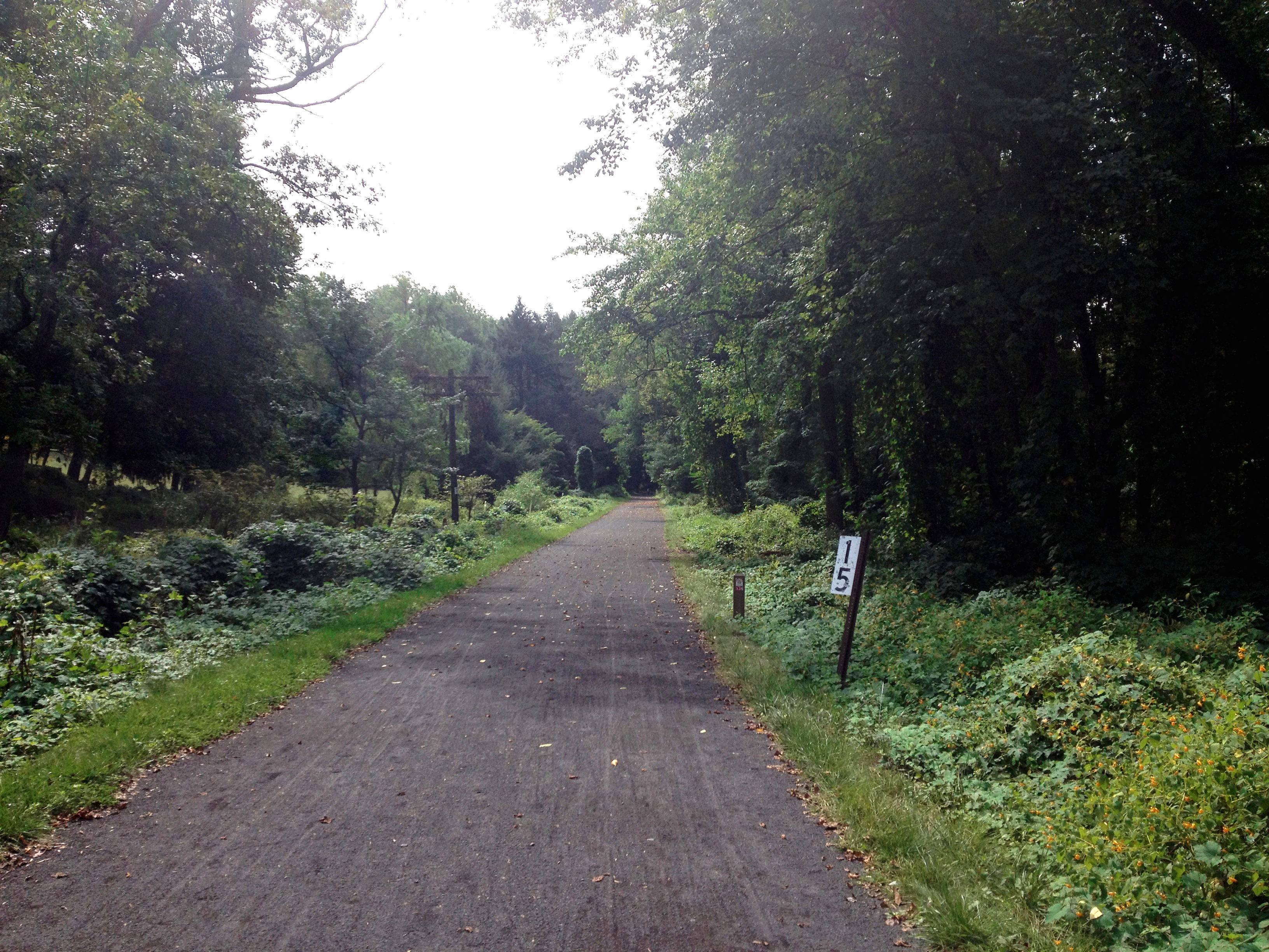 The Pennypack Trail south of the former Bryn Athyn station in Bryn Athyn, Pennsylvania. The trail follows the former Fox Chase-Newtown Line, with a former telegraph pole and milepost visible.